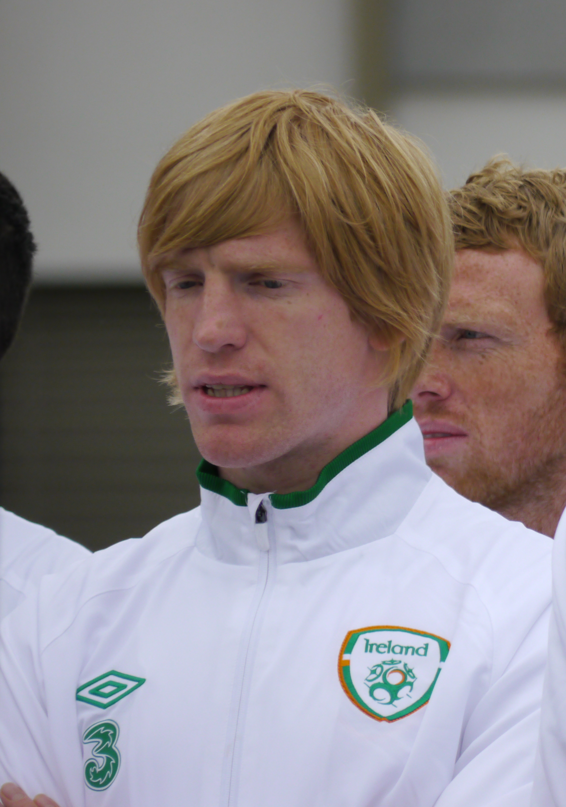 Irish football player Paul McShane during "welcome ceremony" in Sopot, just before EURO 2012.